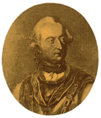 Nikolaus Heinrich von Schönfeld (1733-1795) was a Prussian general who build a summer residence in Kassel, Germany.